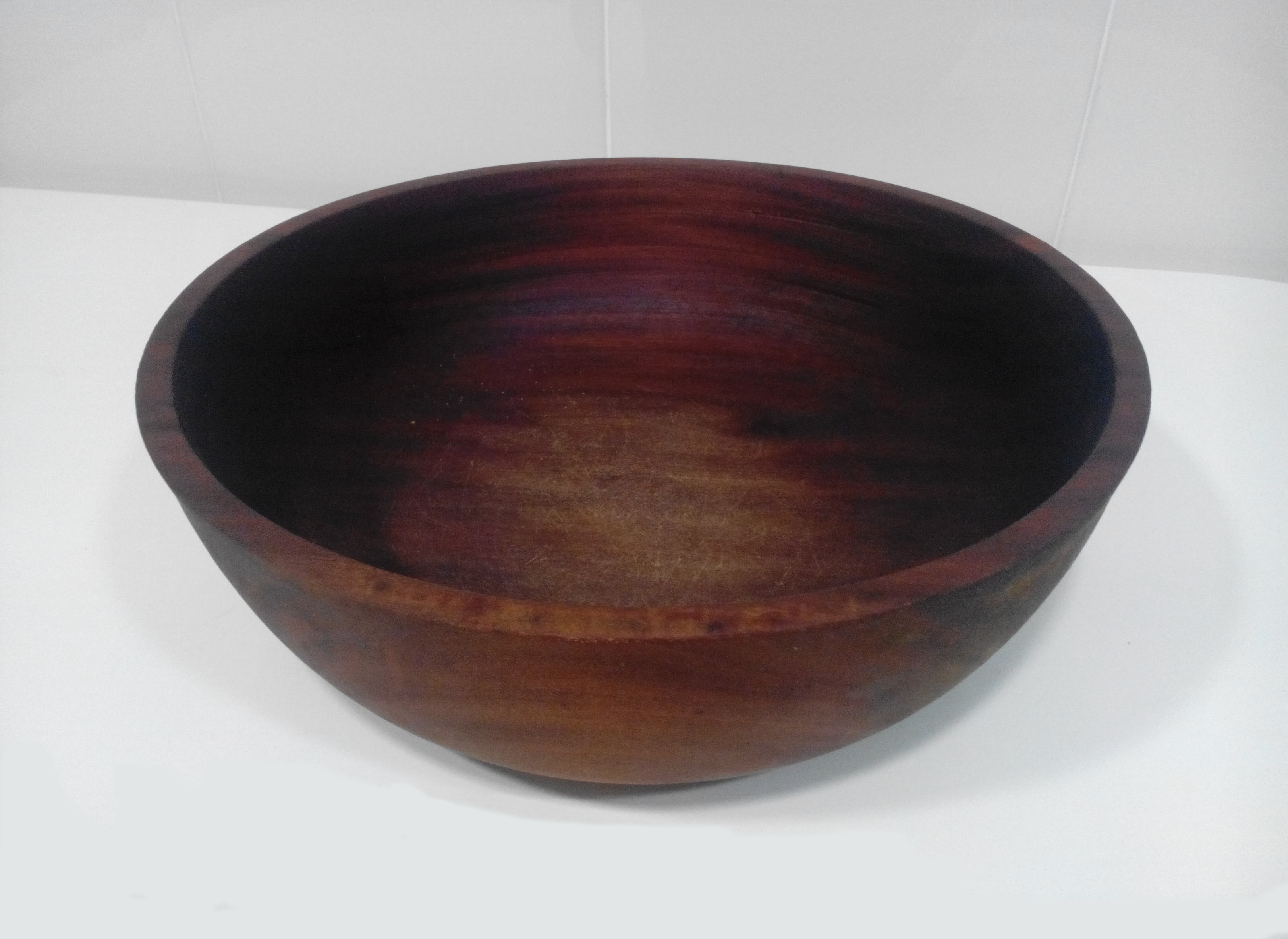 Wooden mortar in kitchen tool of Spain